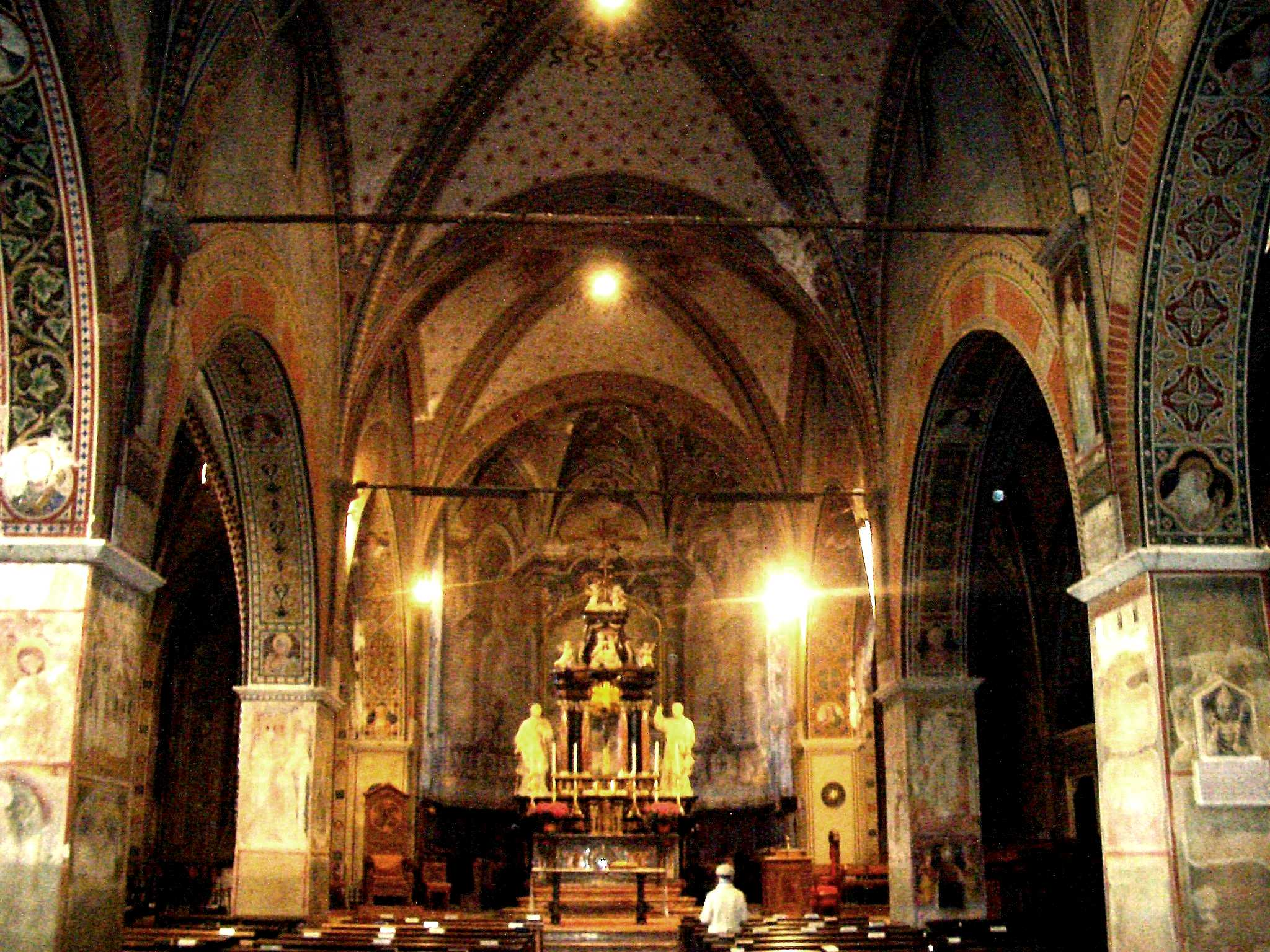 Lugano, San Lorenzo Cathedral, the central nave